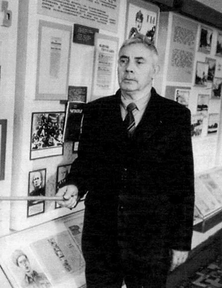 V. Kmetsynskyi conducts tours to museums. The 80 years of XX century.